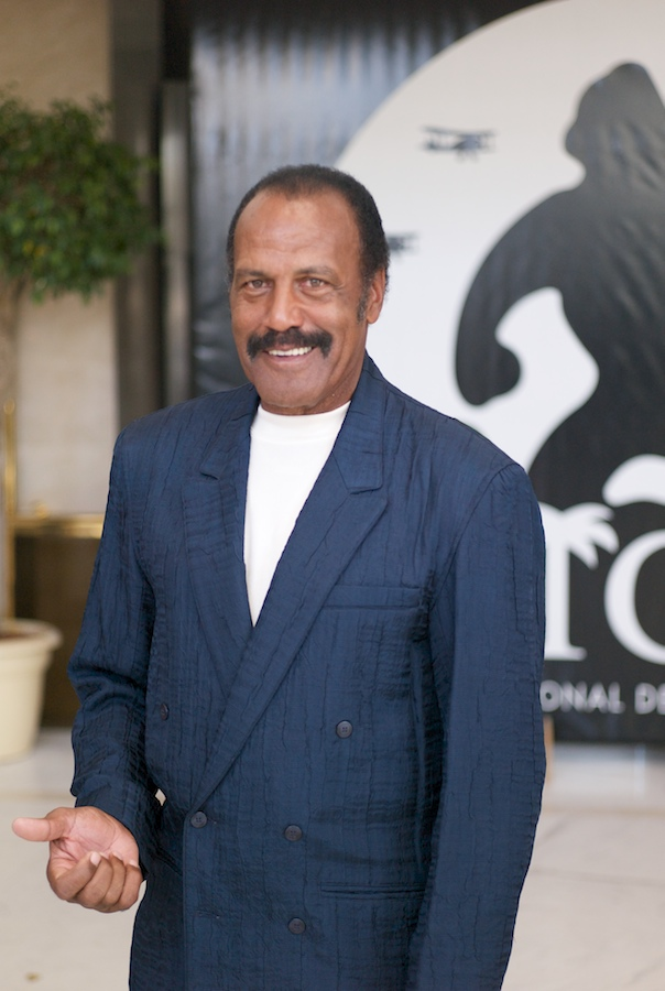 Photograph of Fred Williamson at the 2008 Sitges Film Festival